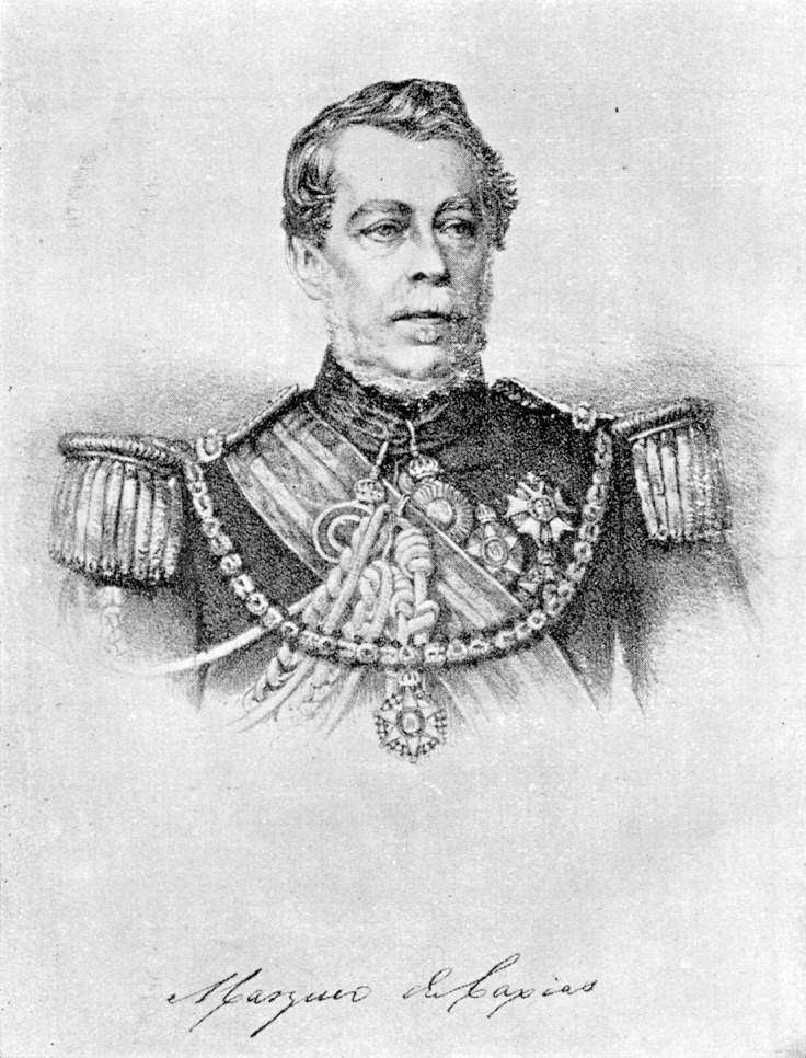 Duke of Caxias, c.1869